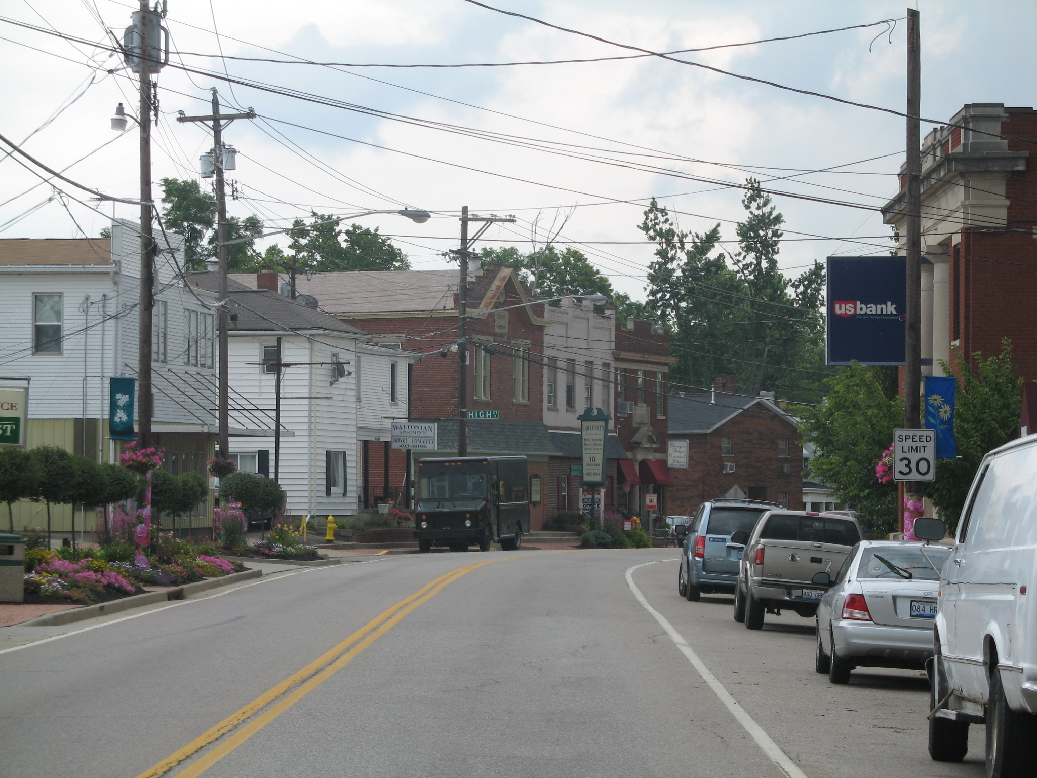 View of downtown Walton, Kentucky.